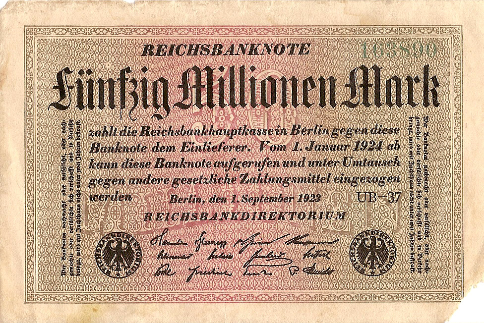 A 50 million mark bill from the days of the German depression.